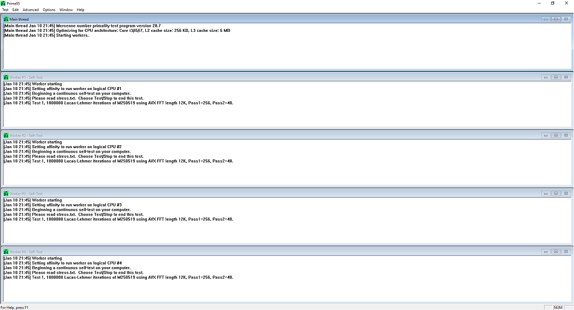 Version 28.7 of Prime95 running on Windows 10.